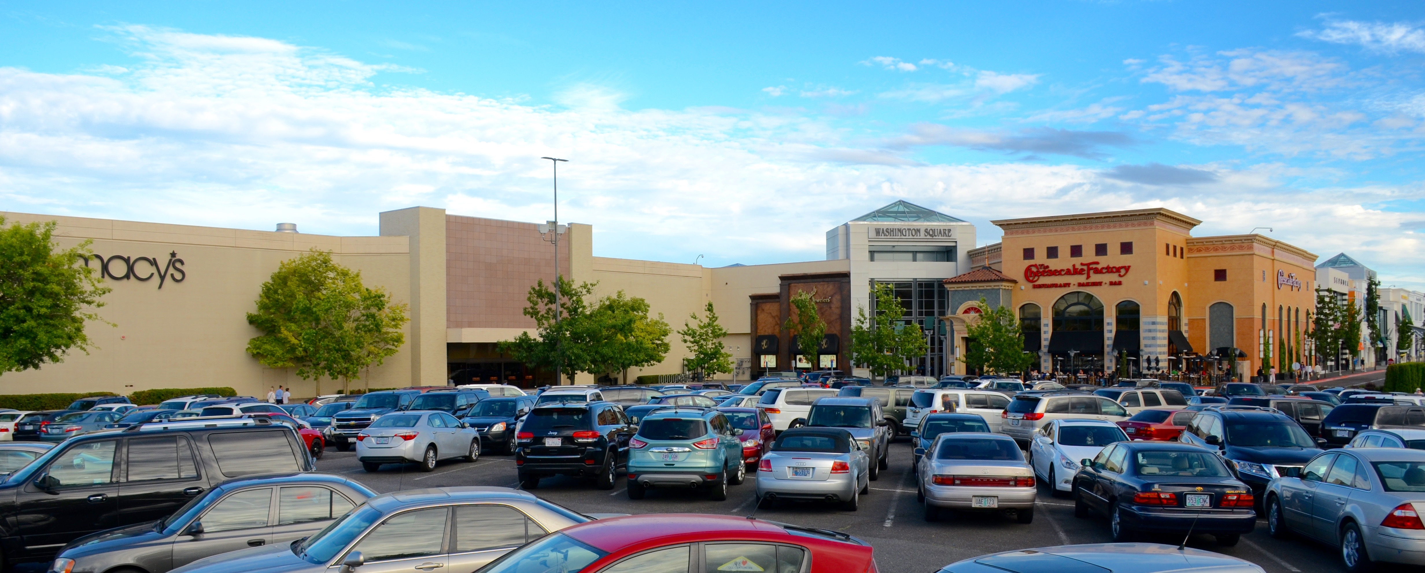 The Washington Square mall, in Tigard, Oregon (in the west-side suburbs of Portland). This is the northwest portion of the mall, viewed from the parking lot to the northwest, looking southeast. The portion of the Macy's store visible here dates from the opening of the mall in 1973, and was a Meier & Frank Company store until 2006 (when Macy's rebranded it). The Macy's, ex-M&F store extends about 100 feet more to the left, out-of-frame, and that portion was an addition Meier & Frank built in the 1990s. The structures in the center and righthand part of this photo were added to the mall in 2005.